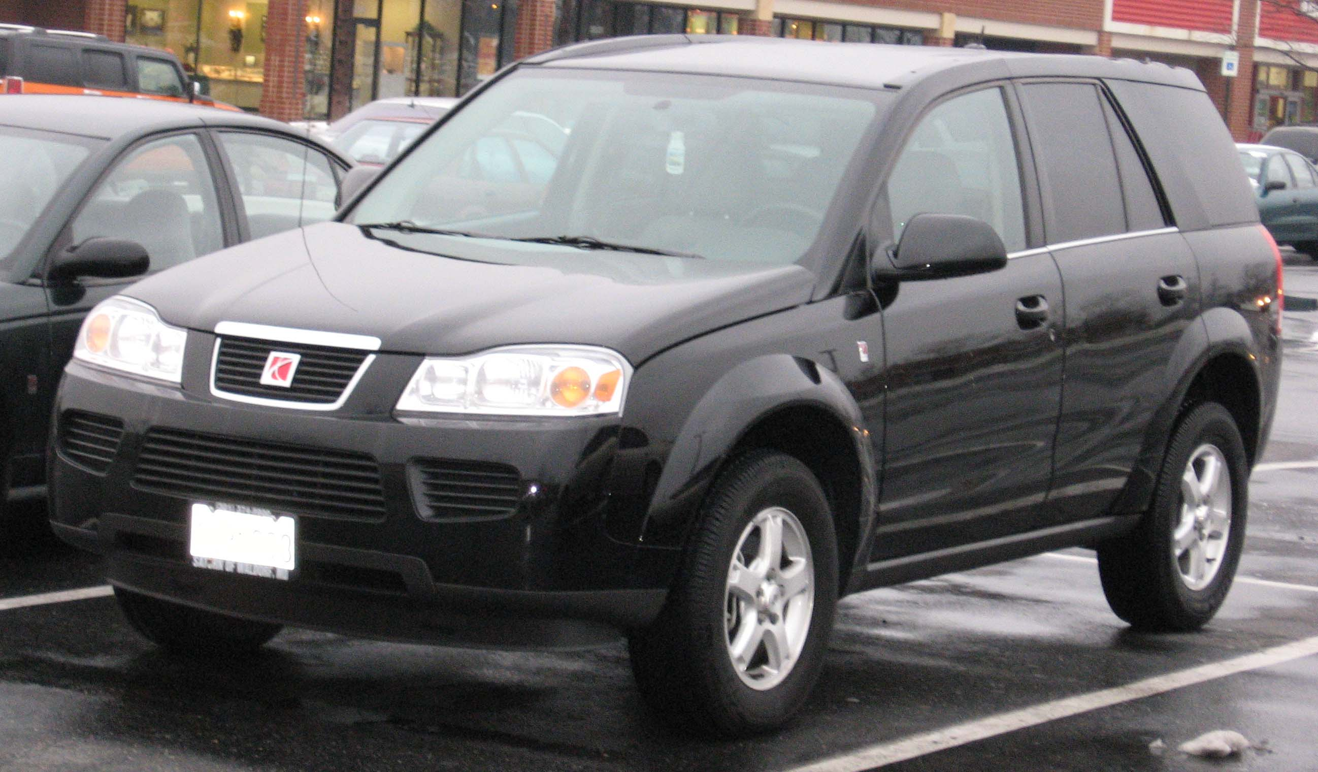 2006-2007 Saturn Vue photographed in USA.